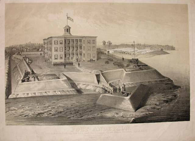 Fort Anderson located in Paducah, Kentucky